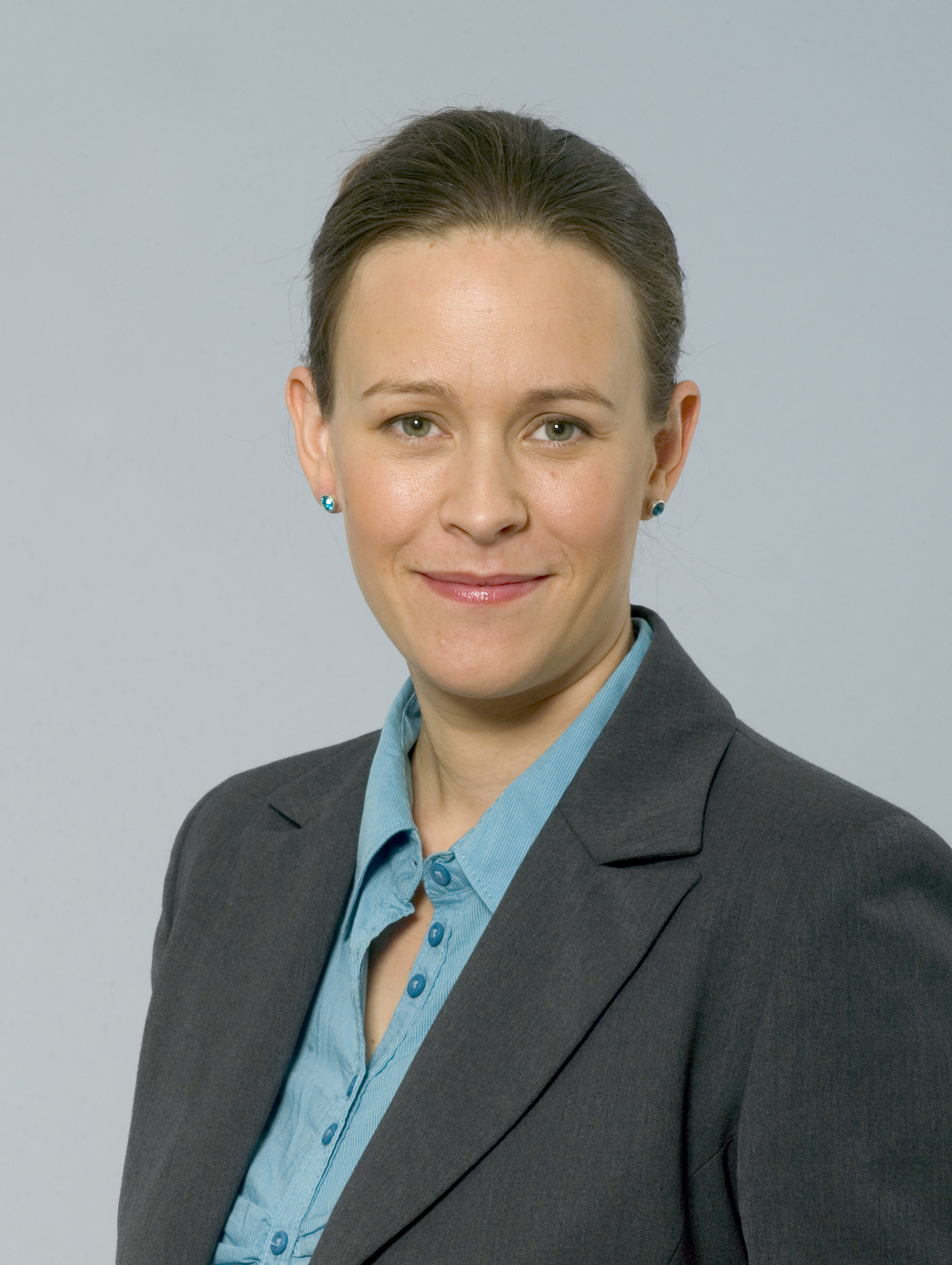 The Swedish Greens spokesperson Maria Wetterstrand